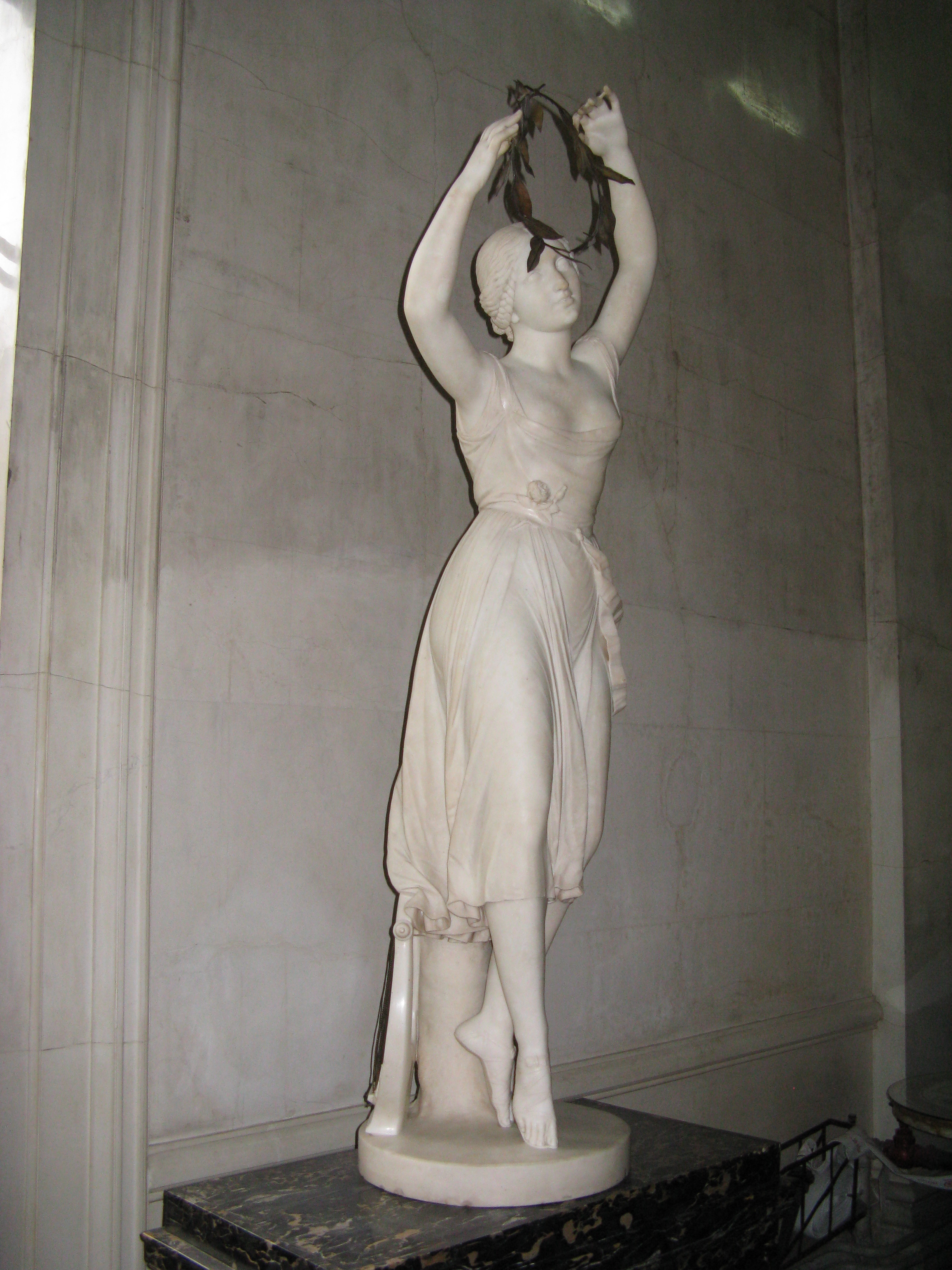 Prima Ballerina Marie Taglioni on pointe by Rinaldo Rinaldi (1793-1873) at the Hermitage.